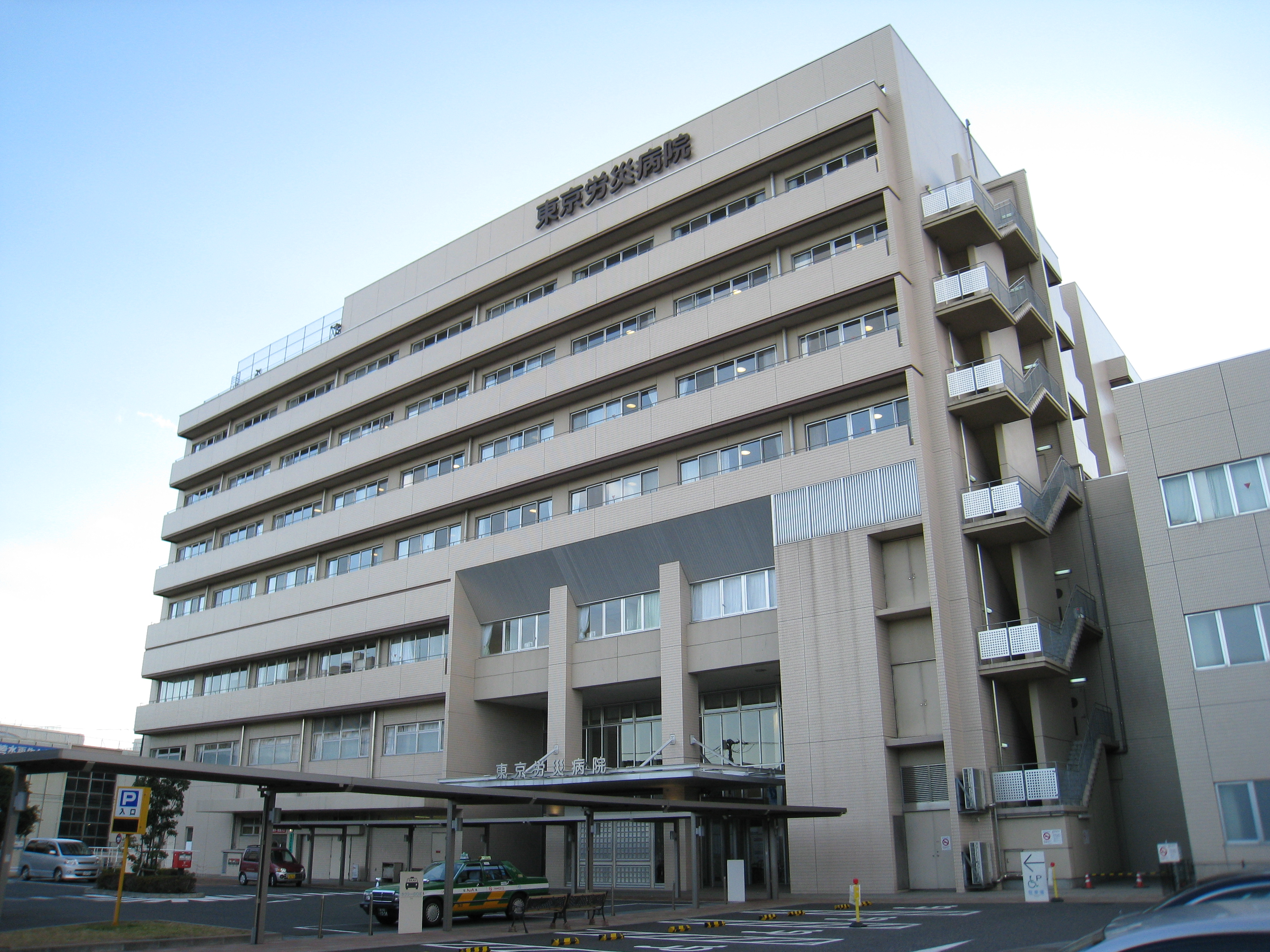 Tokyo Rosai Hospital